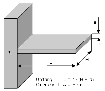 Cooling fin dimensions